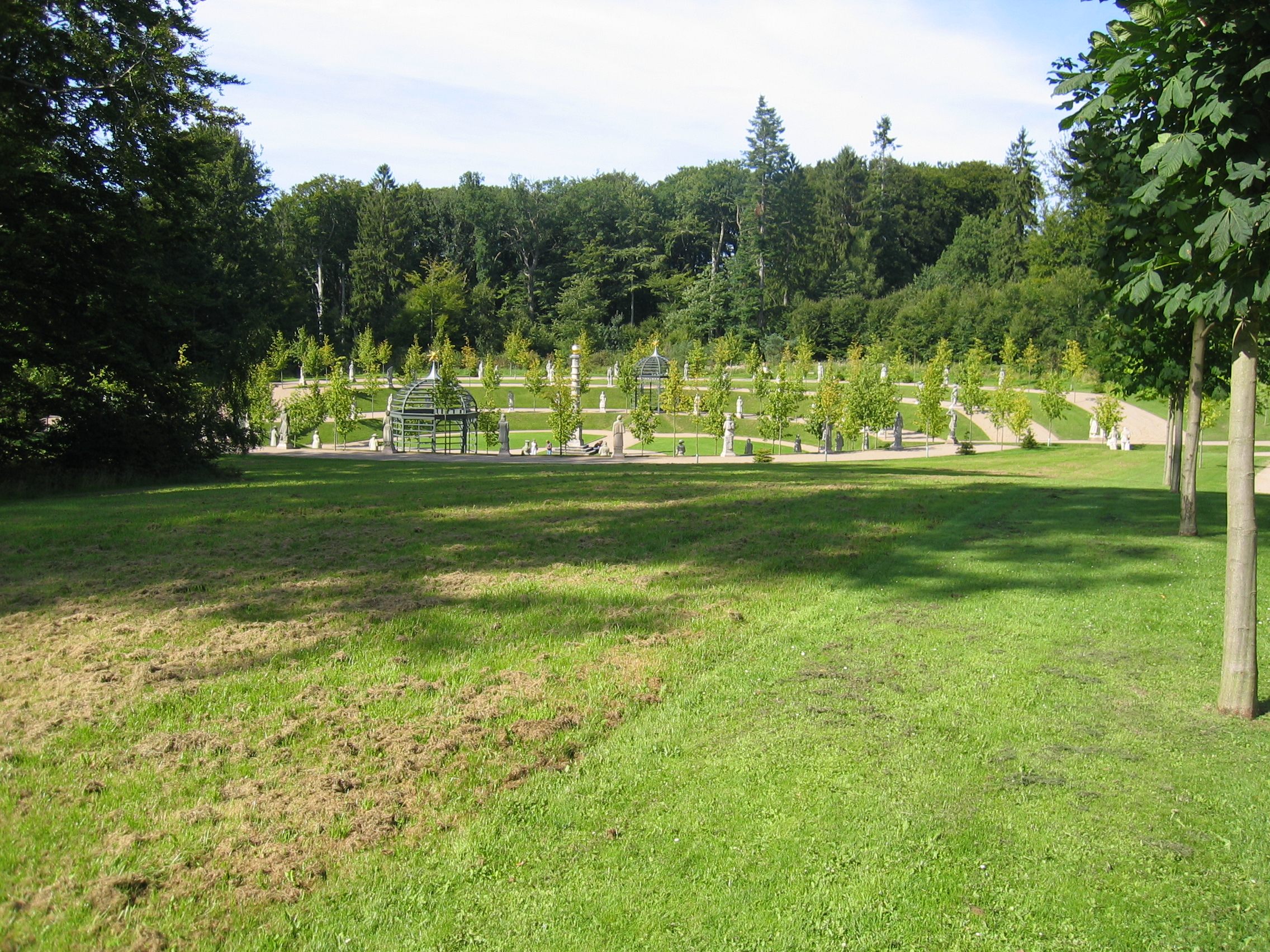 Nordmandsdalen, Fredensborg Palace Gardens, Denmark